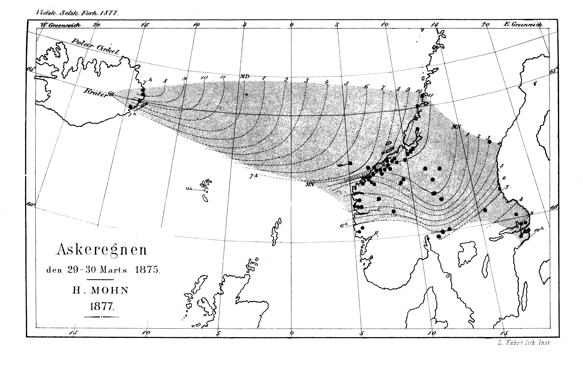 Ash distribution and occurrence of ash fall in Scandinavia (Norway and Sweden) after the 1875 (29th and 30th March) eruption of the Askja volcano (labelled “Krater” on the map) in eastern Iceland.